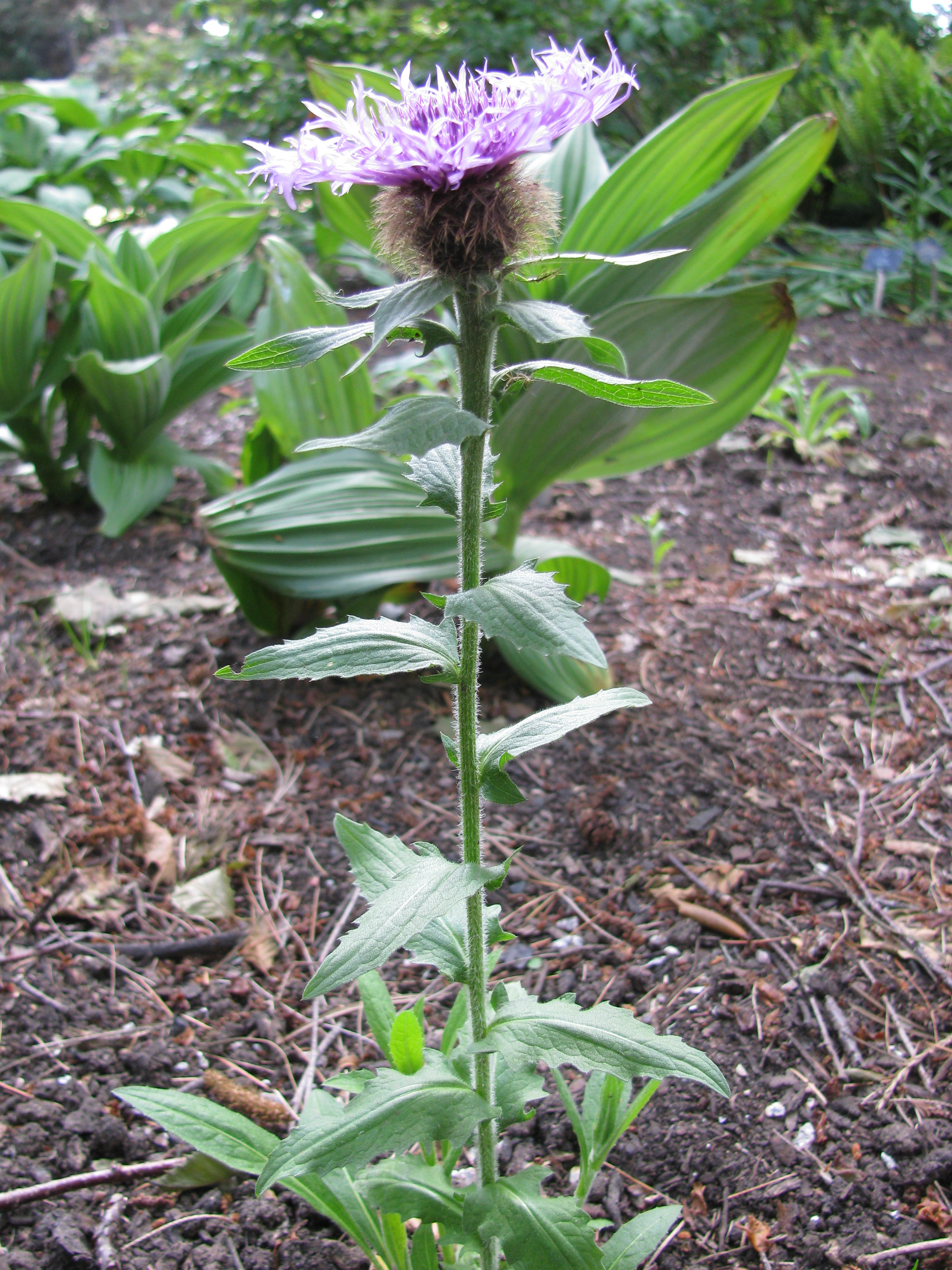 Singleflower Knapweed Royal Botanic Garden Edinburgh: Accession number 2009.0414 A